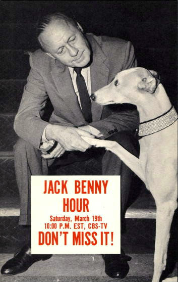 Promotional postcard for Jack Benny television special. This postcard was produced prior to 1978 and has no copyright markings. After Benny's regularly scheduled television show was over, he did a series of specials for both NBC and CBS television. The postcard refers to a special on CBS-TV; Benny died in 1974.